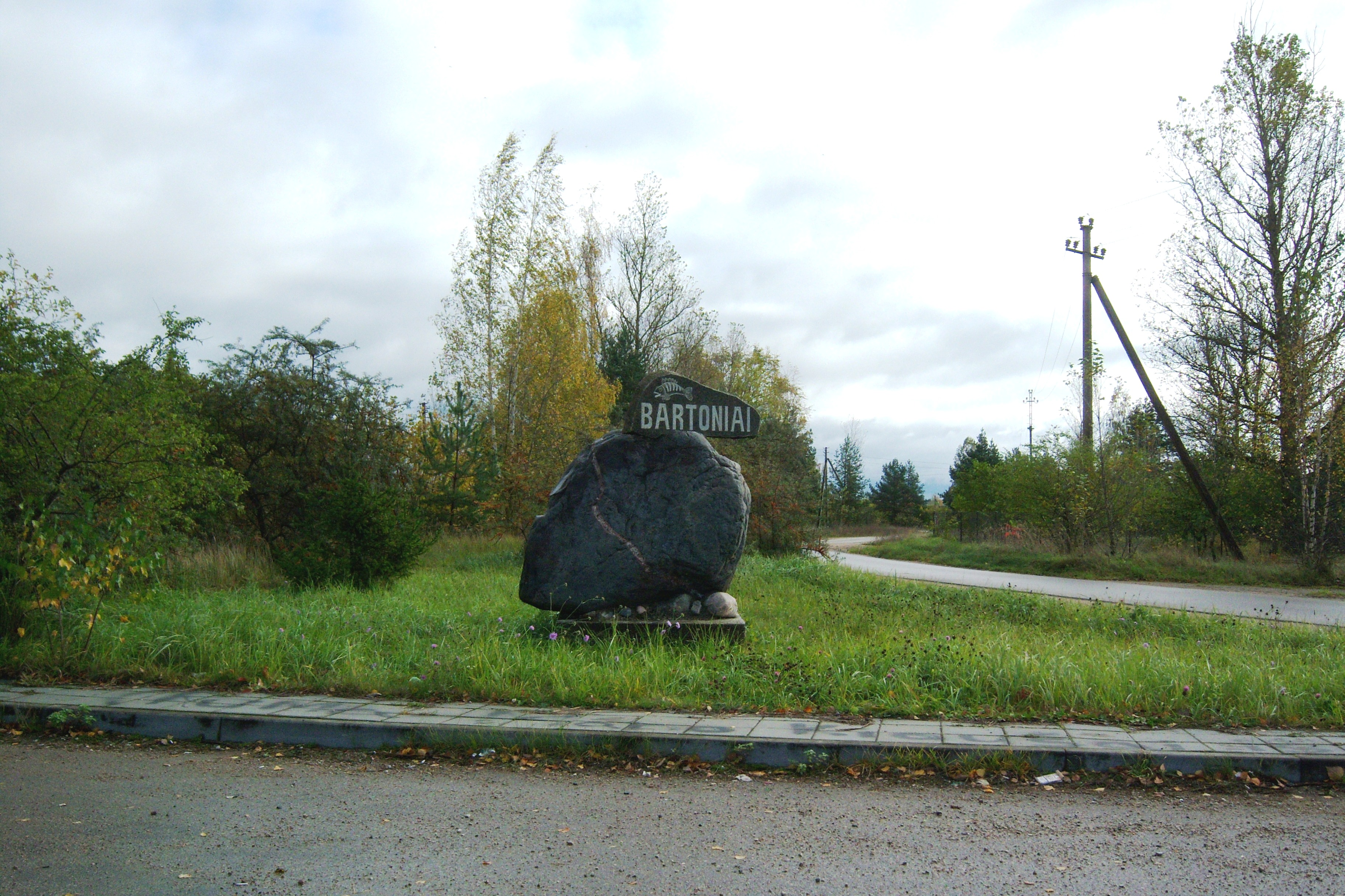 Village of Bartoniai, Jonava District, Lithuania